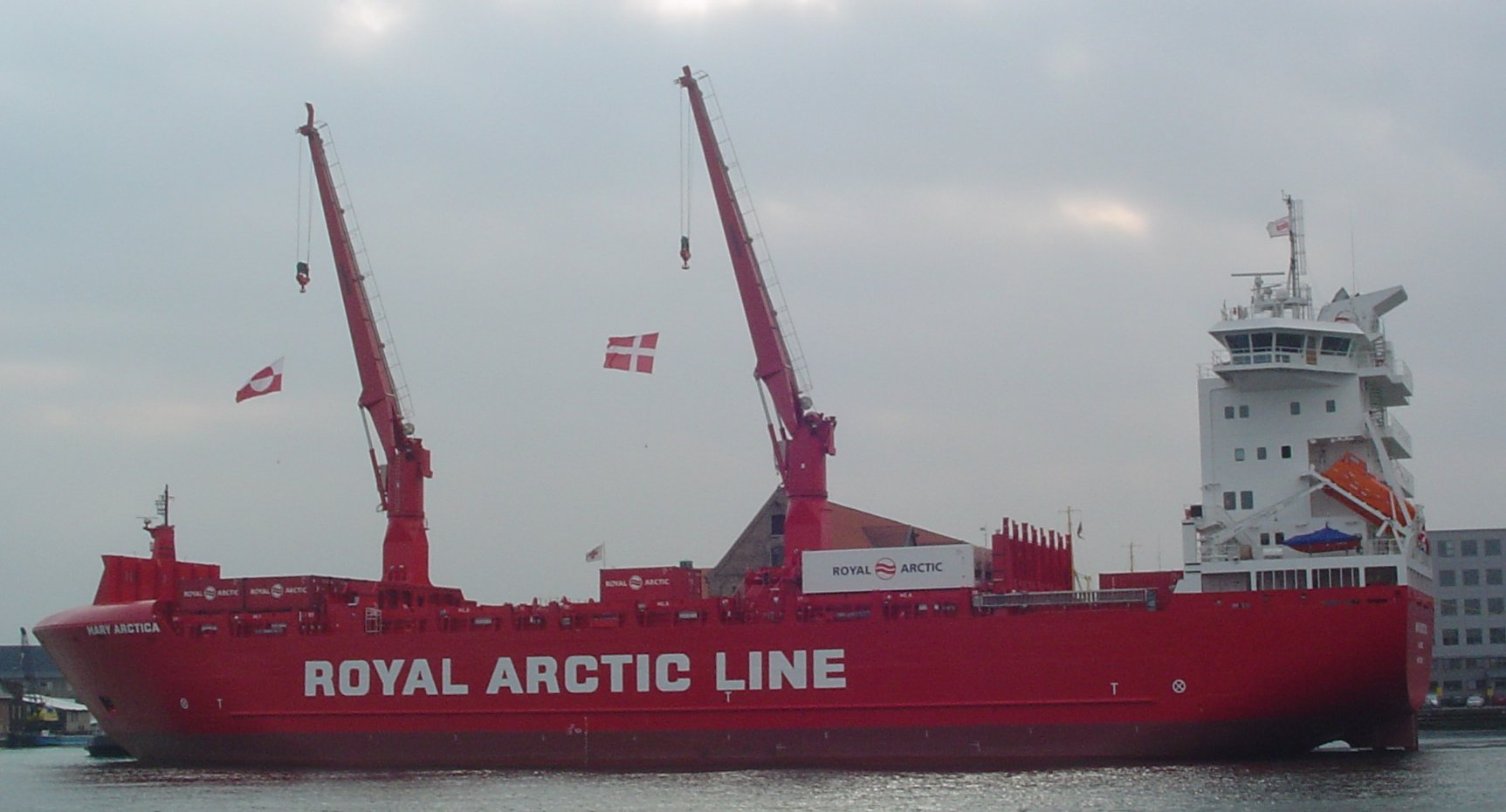 A crane on a "small" container ship, the Mary Arctica. IMO Number: 9311878 MMSI Number: 220364000 Callsign: OXGN2 Length: 113 m Beam: 23 m Taken by me in April 2005, in Copenhagen harbour. An uncut version is here